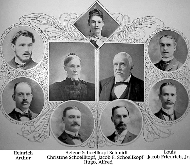 The Schoellkopf Family. Source: The History of the Germans in Buffalo and Erie County, Part XXIII